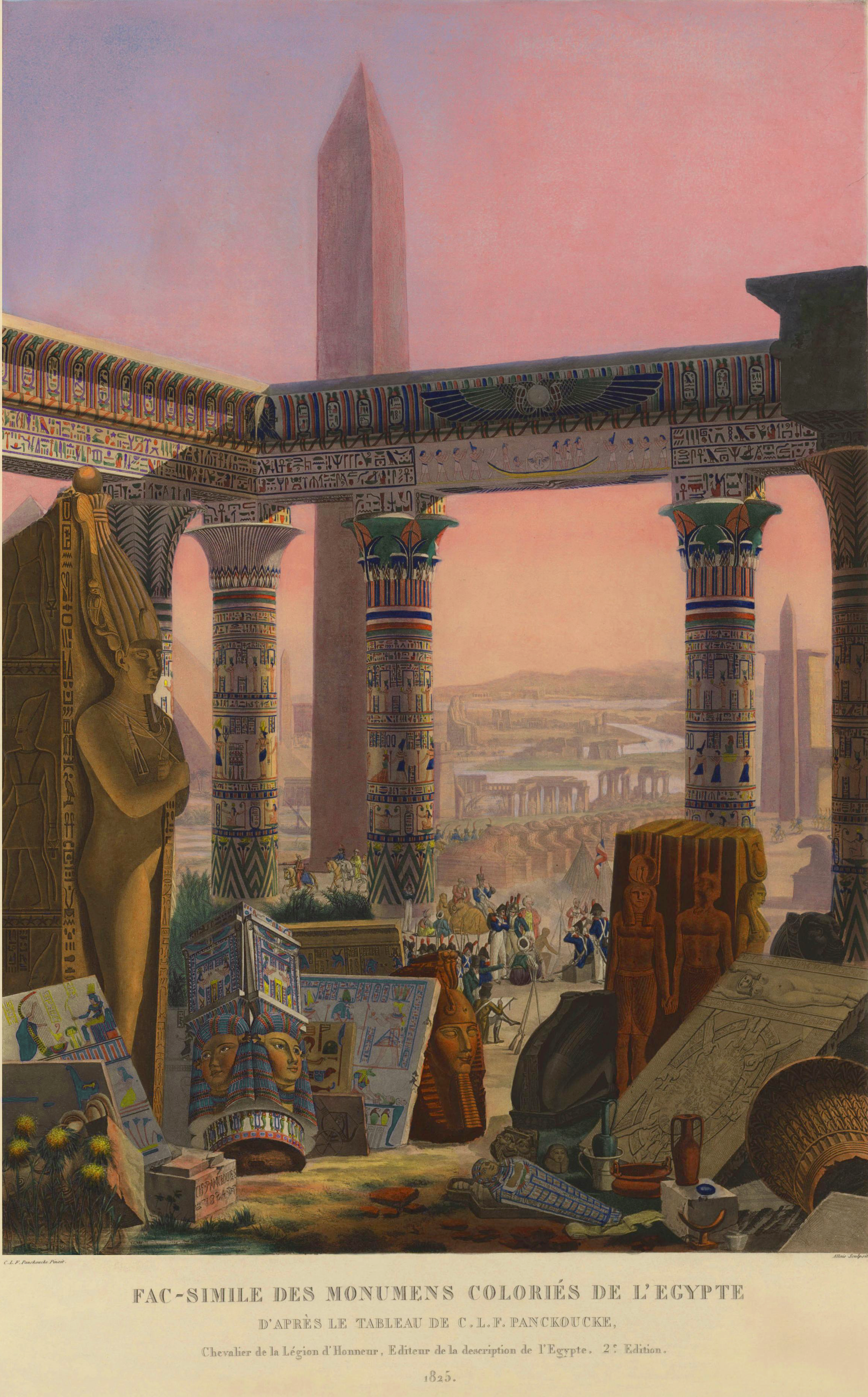 Frontispiece for the Description de l'Égypte, a work on Egypt commissioned by Napoleon.